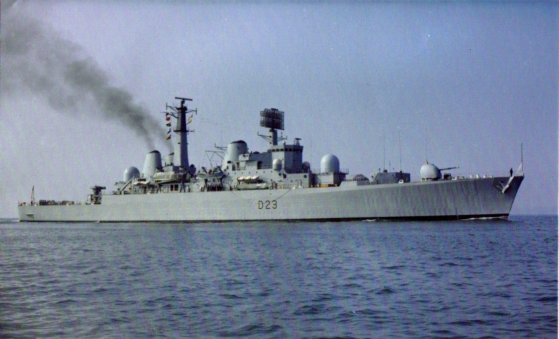 HMS Bristol (D23), Royal Navy destroyer